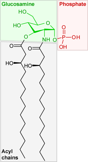 Chemical structure of the 2,3-bis-(3R-hydroxy-tetradecanoyl)-αD-glucosamine-1-phosphate (lipid X)